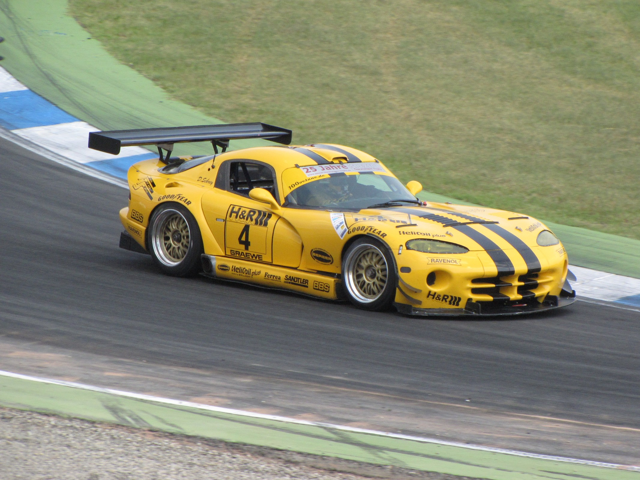 Daniel Schrey drives a Chrysler Viper GTS-R at STT race in Hockenheim 2010